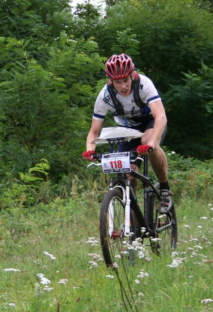 This work is free and may be used by anyone for any purpose. If you wish to use this content, you do not need to request permission as long as you follow any licensing requirements mentioned on this page.